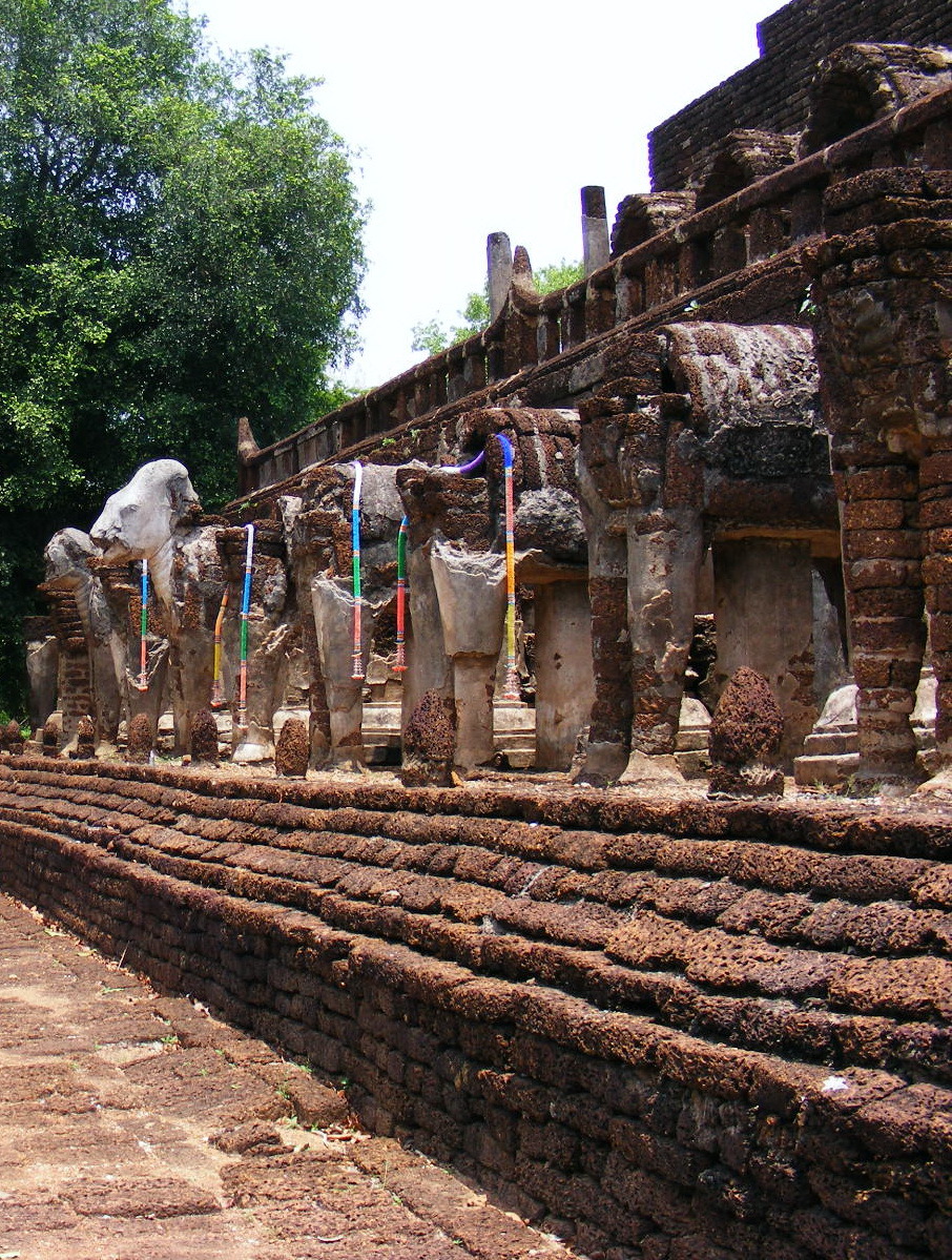 Si Satchanalai historical parkLocation: Si Satchanalai, Sukothai Province, Thailand.